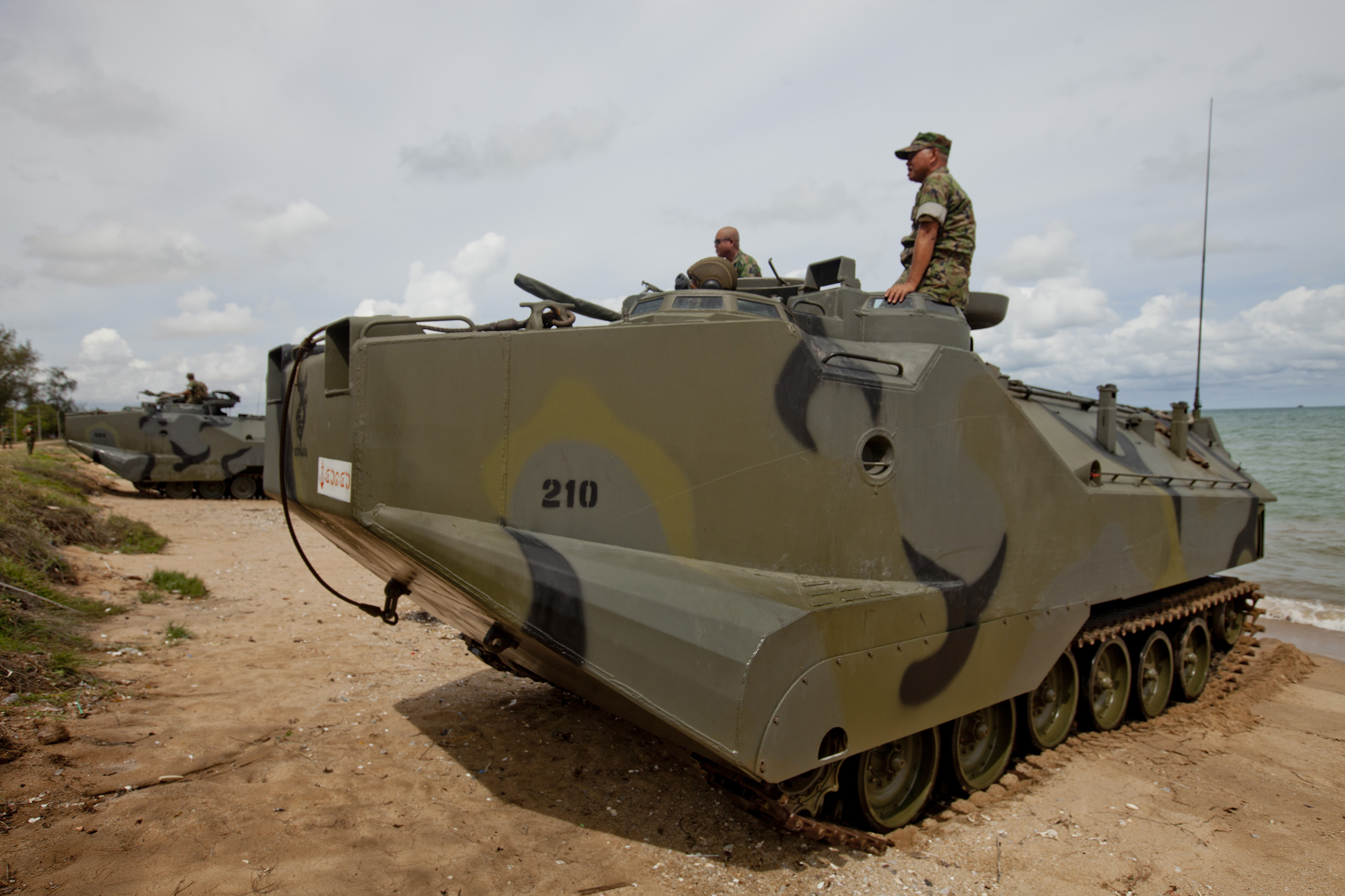 Thai marines prepare for amphibious assault training with U.S. Marines with the 2nd Assault Amphibian Battalion, 2nd Marine Division during Cooperation Afloat Readiness and Training (CARAT) 2013 at Camp Samae San, Thailand, June 6, 2013. CARAT is a series of bilateral exercises held annually in Southeast Asia to strengthen relationships and enhance force readiness.